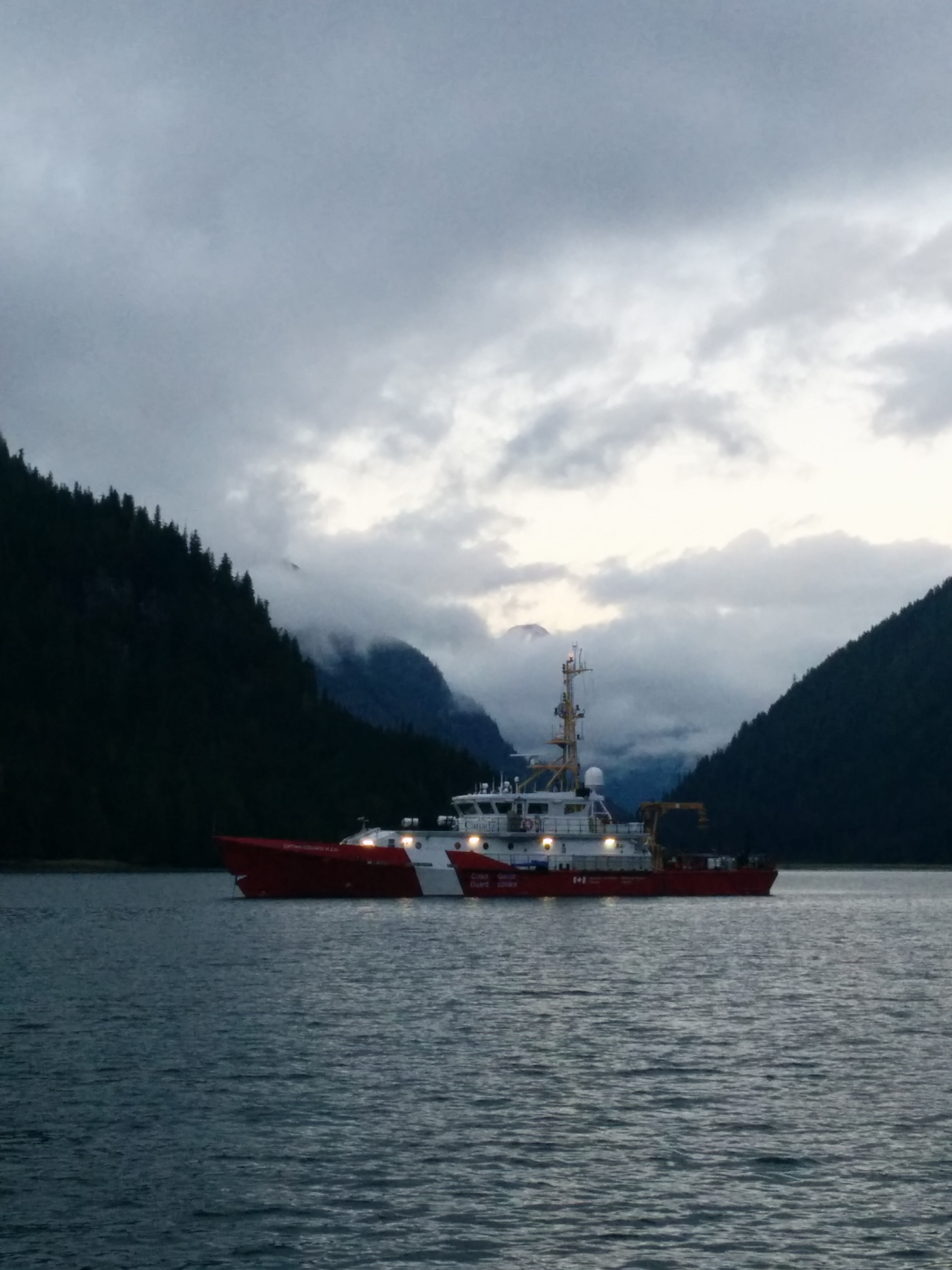 CCGS Captain Goddard M.S.M. at Anchor in Khutzmateen Inlet on BC's North Coast. 2015